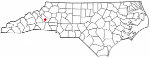 Category:North Carolina Dot Maps